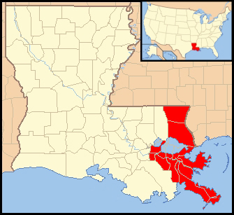 Map of the Catholic Archdiocese of New Orleans in the USA.